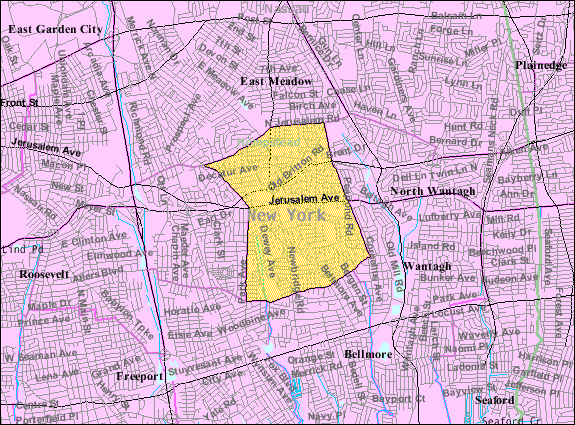 U.S. Census 2000 reference map for North Bellmore